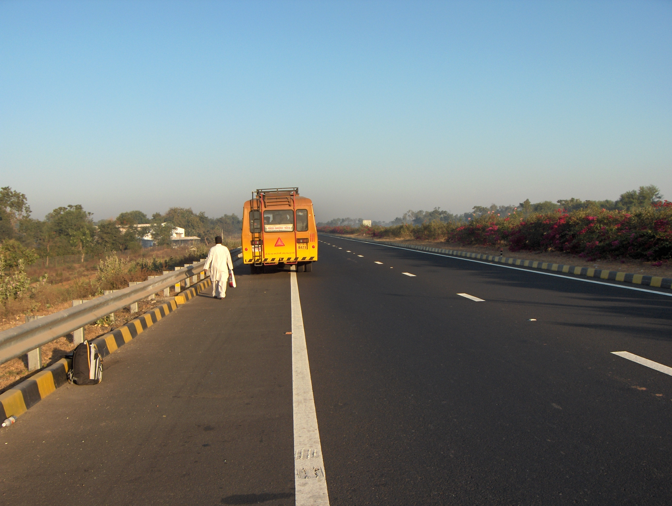 Ahmedabad-Vadodara Expressway Picture taken by me, Nichalp on 28-Jan-2006